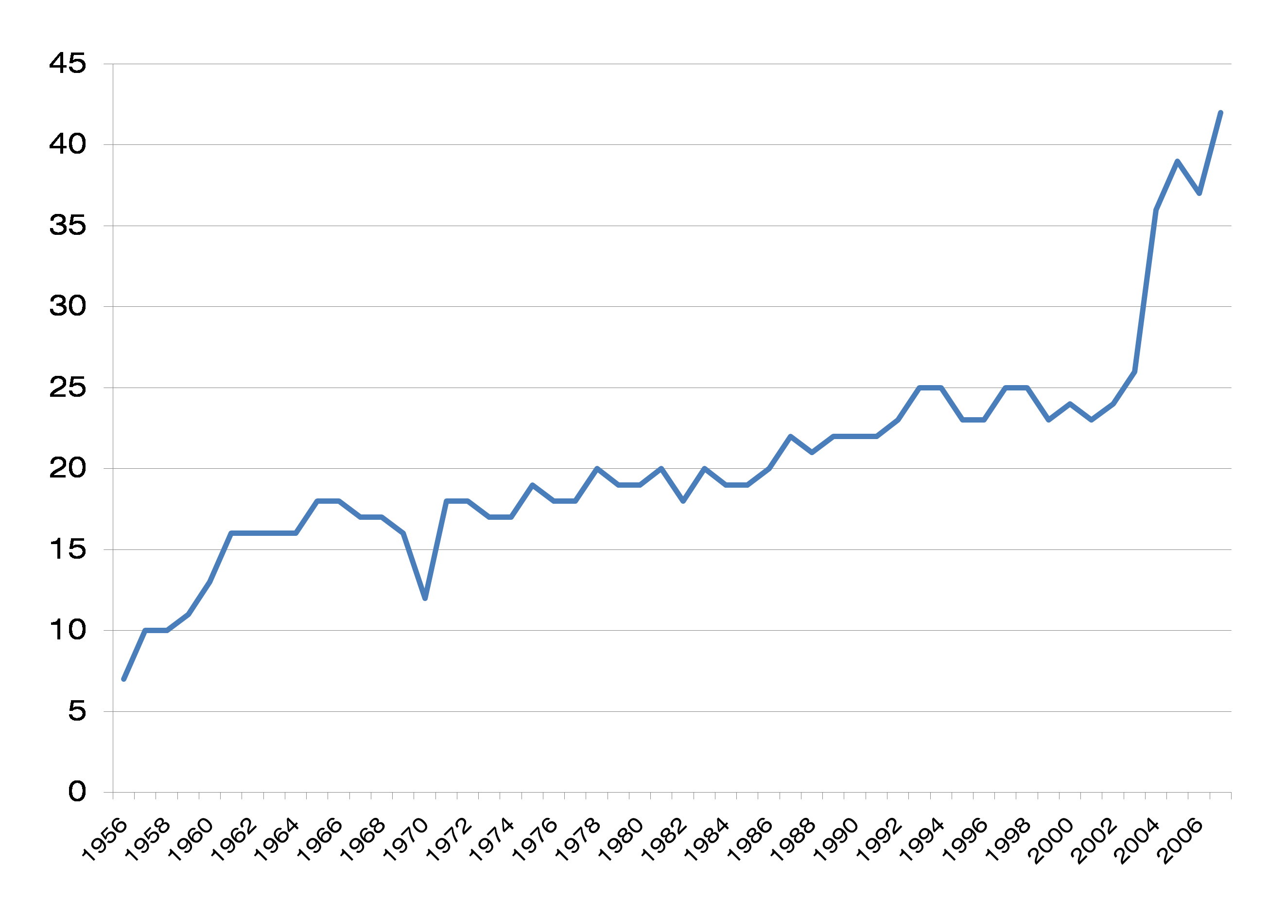 Chart chronicling the number of contestants in the Eurovision Song Contest since it began in 1956.